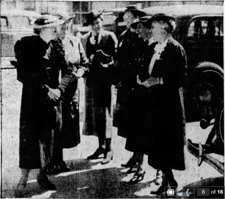 Wanda Brown Shaw, 1937